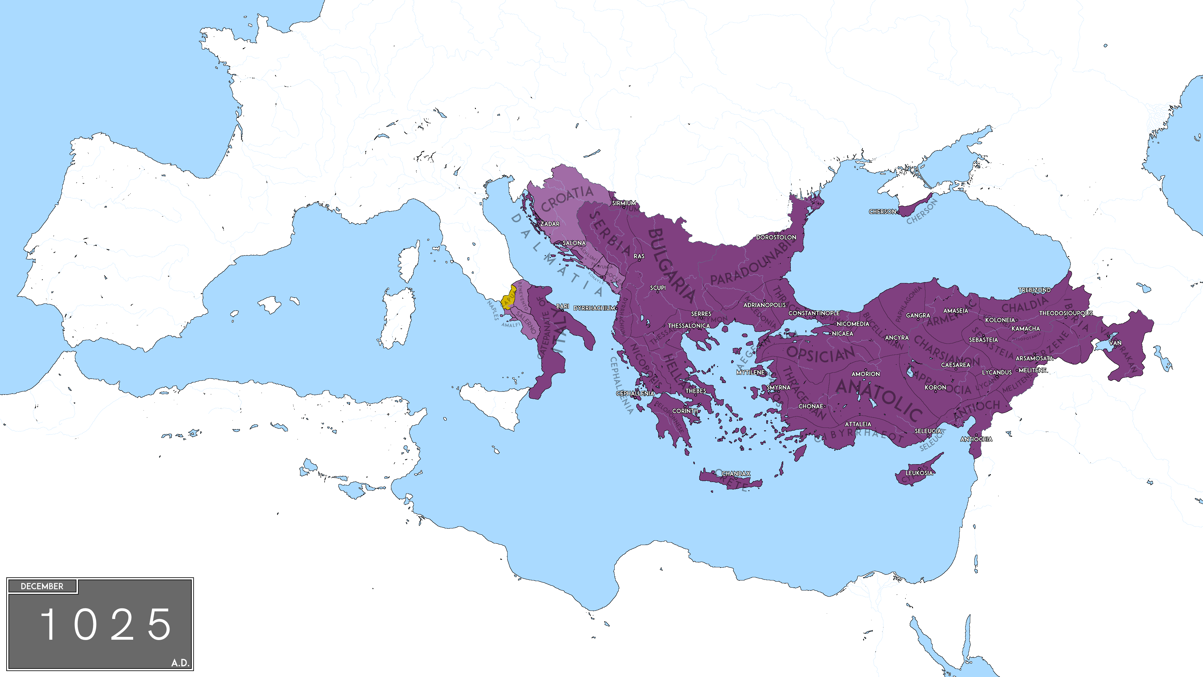 Map of The Eastern Roman Empire under The Macedonian Dynasty.